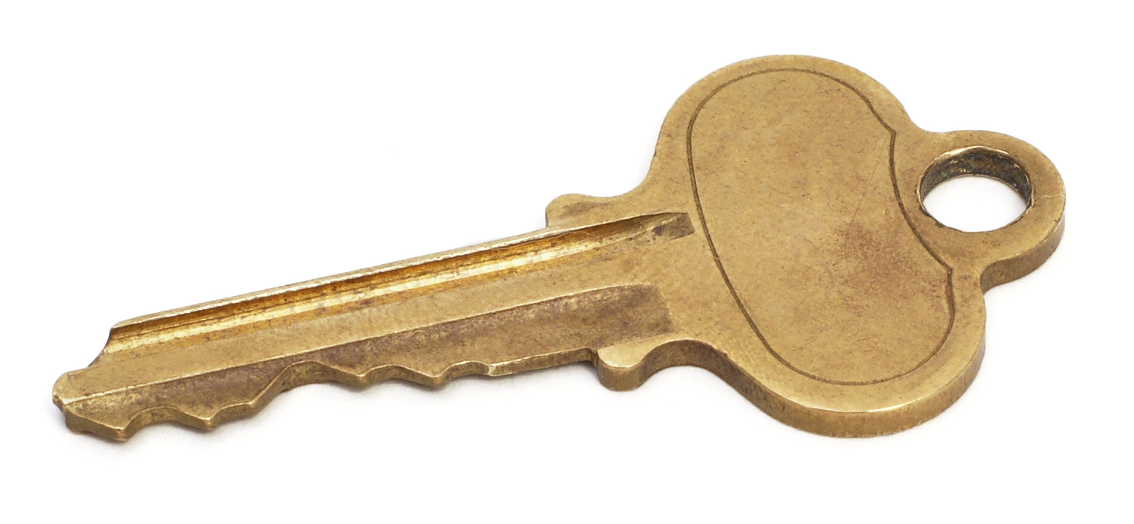 An example of a standard key used for locks.